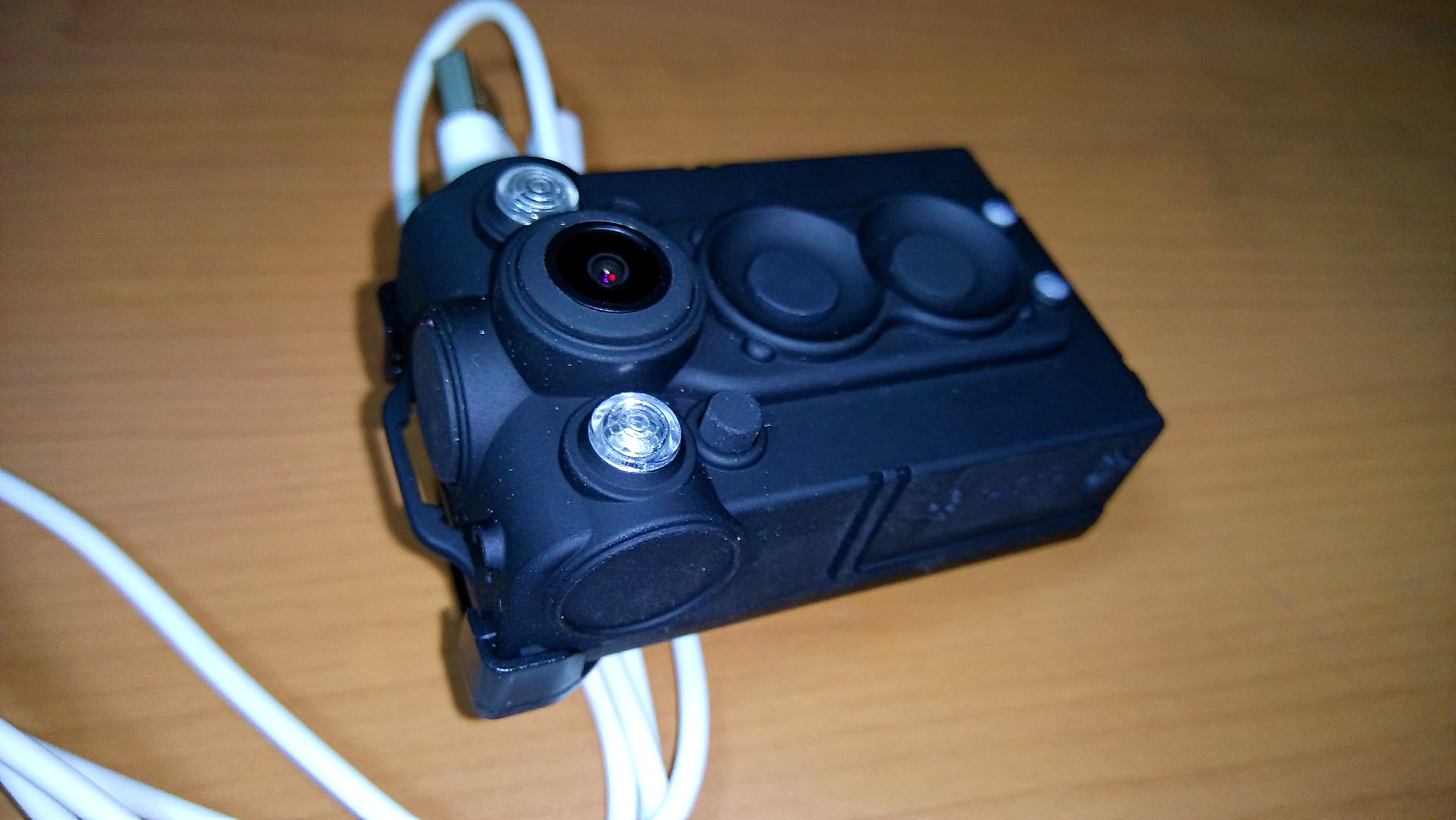 Bodycam(UPC-700W), Universal Portable Camcorder, designed and manufactured by HaiHao Technology Co.Ltd. It's used to be a Body worn video for policing. It can be a Dashcam or an Action camera.